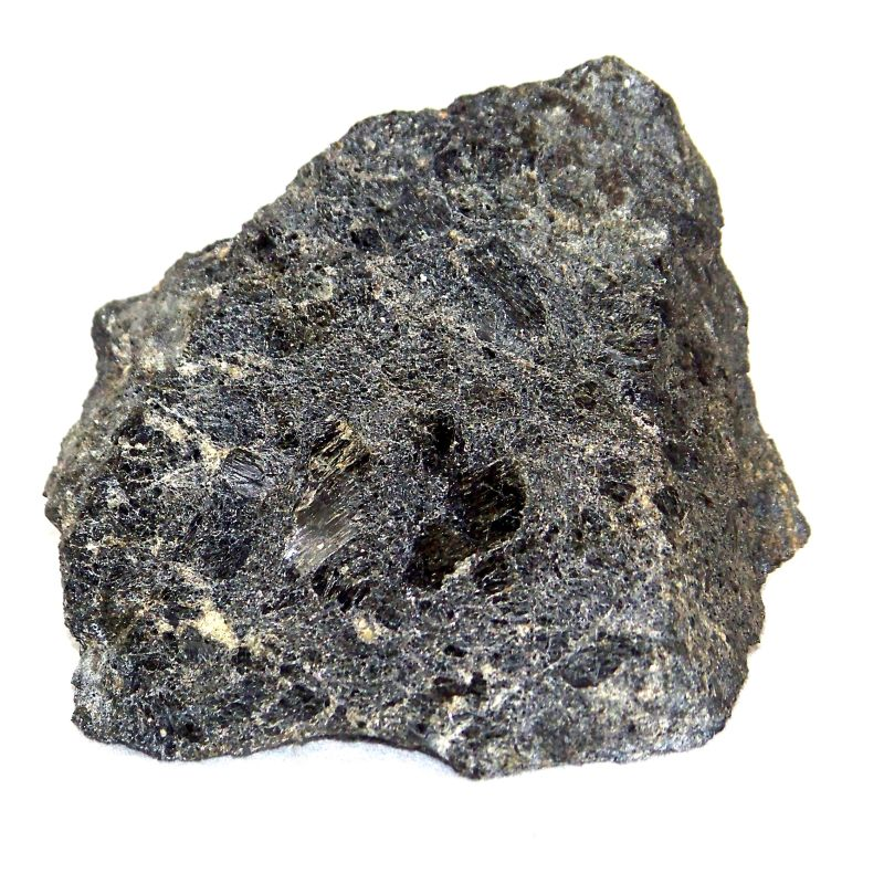 Hornblendite with apatite and piroxenes from Bystrzyca Górna in the Owl Mountains, Lower Silesia, Poland. This is oldest igneous rock from Poland, dated at 1.2 billion years.